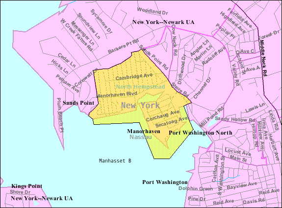 U.S. Census 2000 reference map for Manorhaven, New York